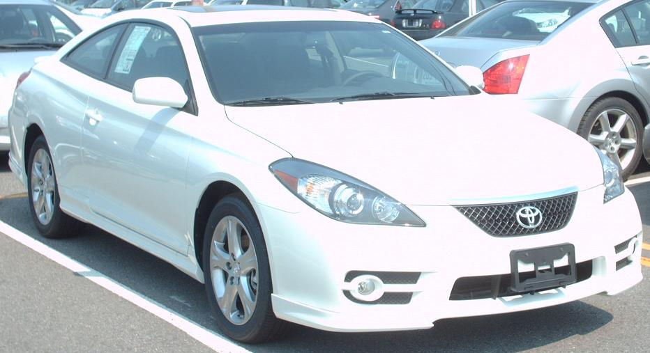 2007 Toyota Camry Solara photographed in Montreal, Quebec, Canada.